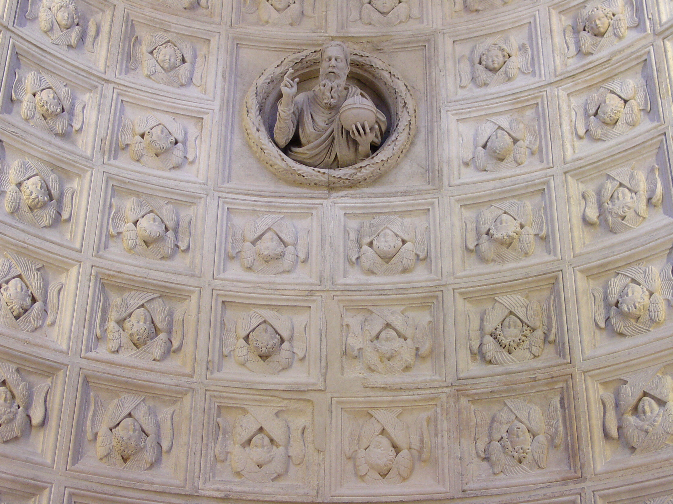 Ceiling of Cathedral of St. Lovro in Trogir, Croatia. June 2007.